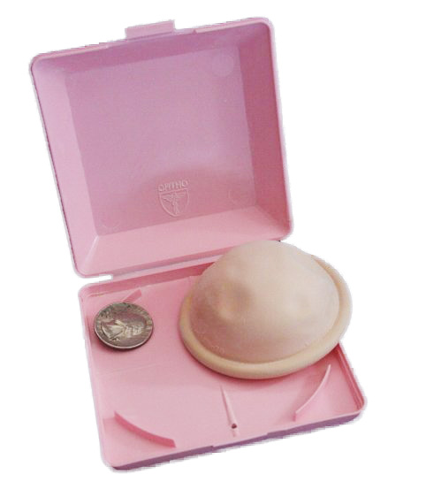 A typical contraceptive diaphragm